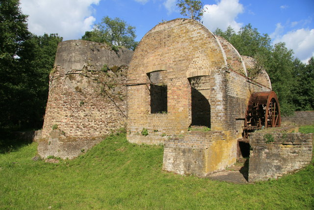 Royal Gunpowder Mills, Waltham Abbey. This is a waterwheel powered gunpowder press. The press is hidden behind the large traverse (blast wall) on the left. The round topped building houses the remains of the waterwheel powered hydraulic pressure pump. This part of the site is an SSSI and is viewed from a 'landtrain' tour.